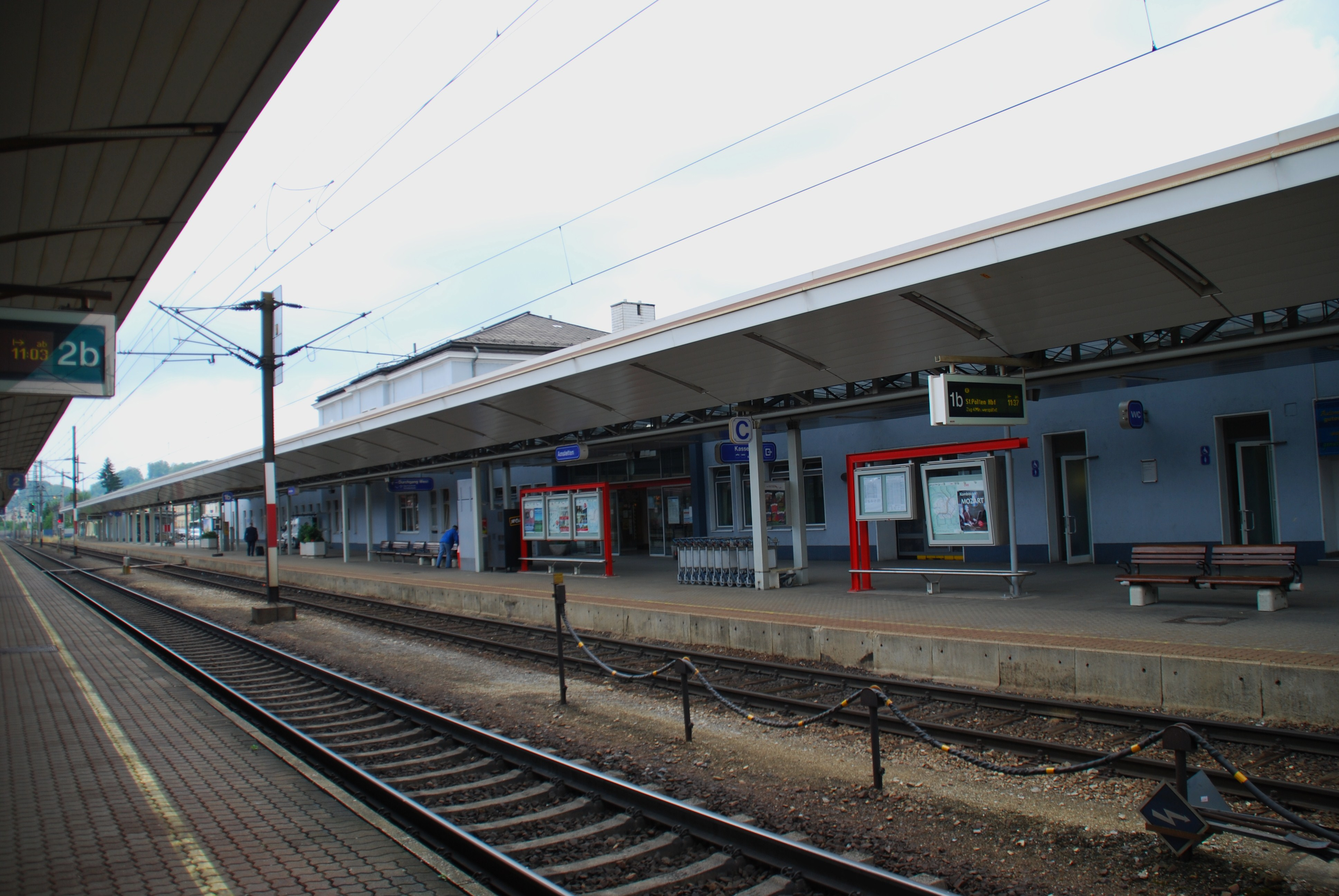 Train Station Amstetten (Austria)